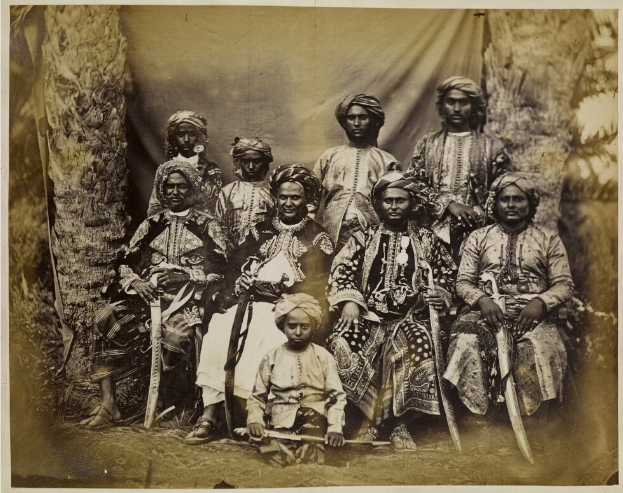 This group portrait shows males of the family of the Sultan of Lahej, members of the Abdali tribe. Photo taken mid - 1870s